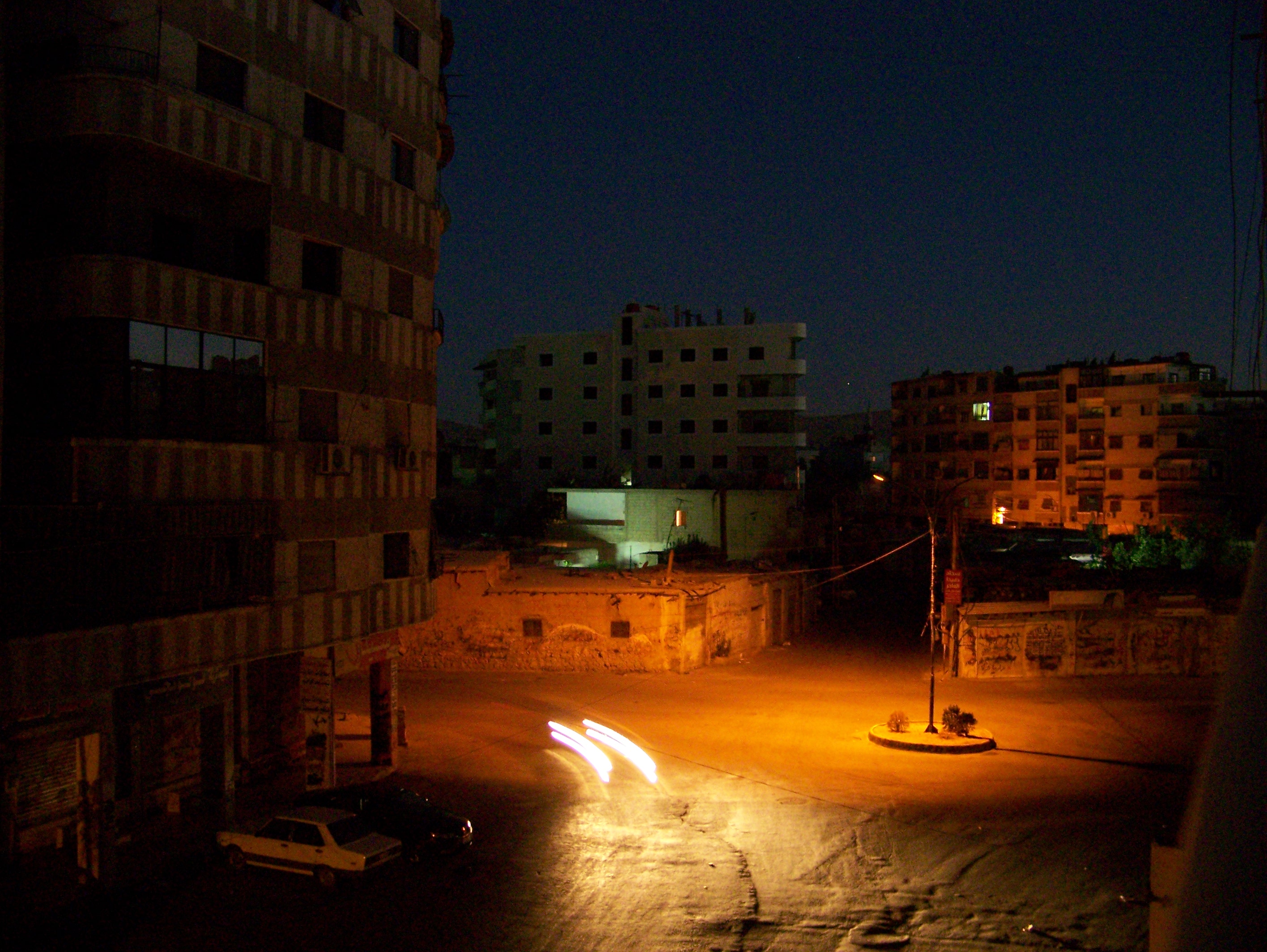 ساحة شريدي - داريا